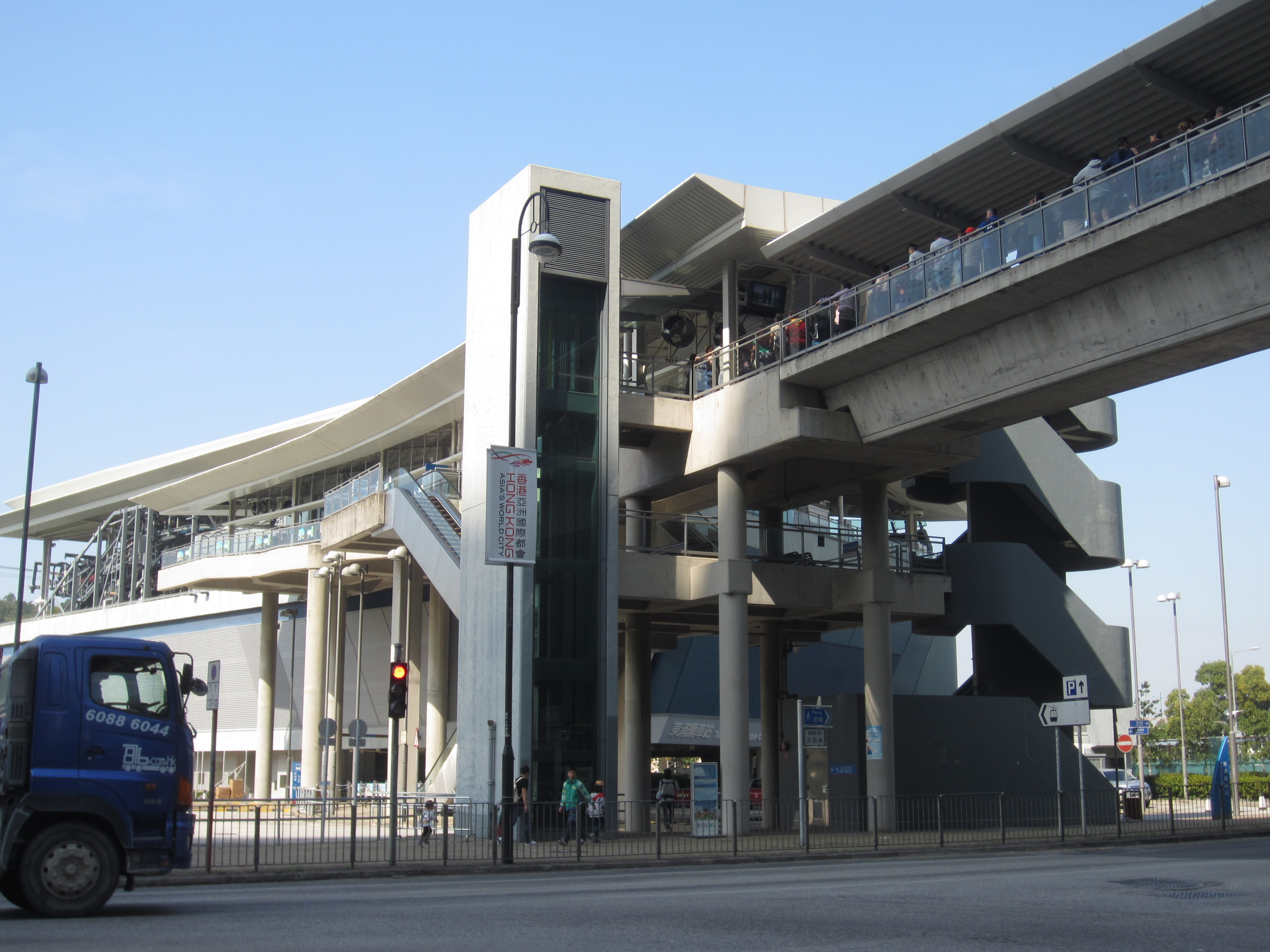 Hong Kong (November 2017)